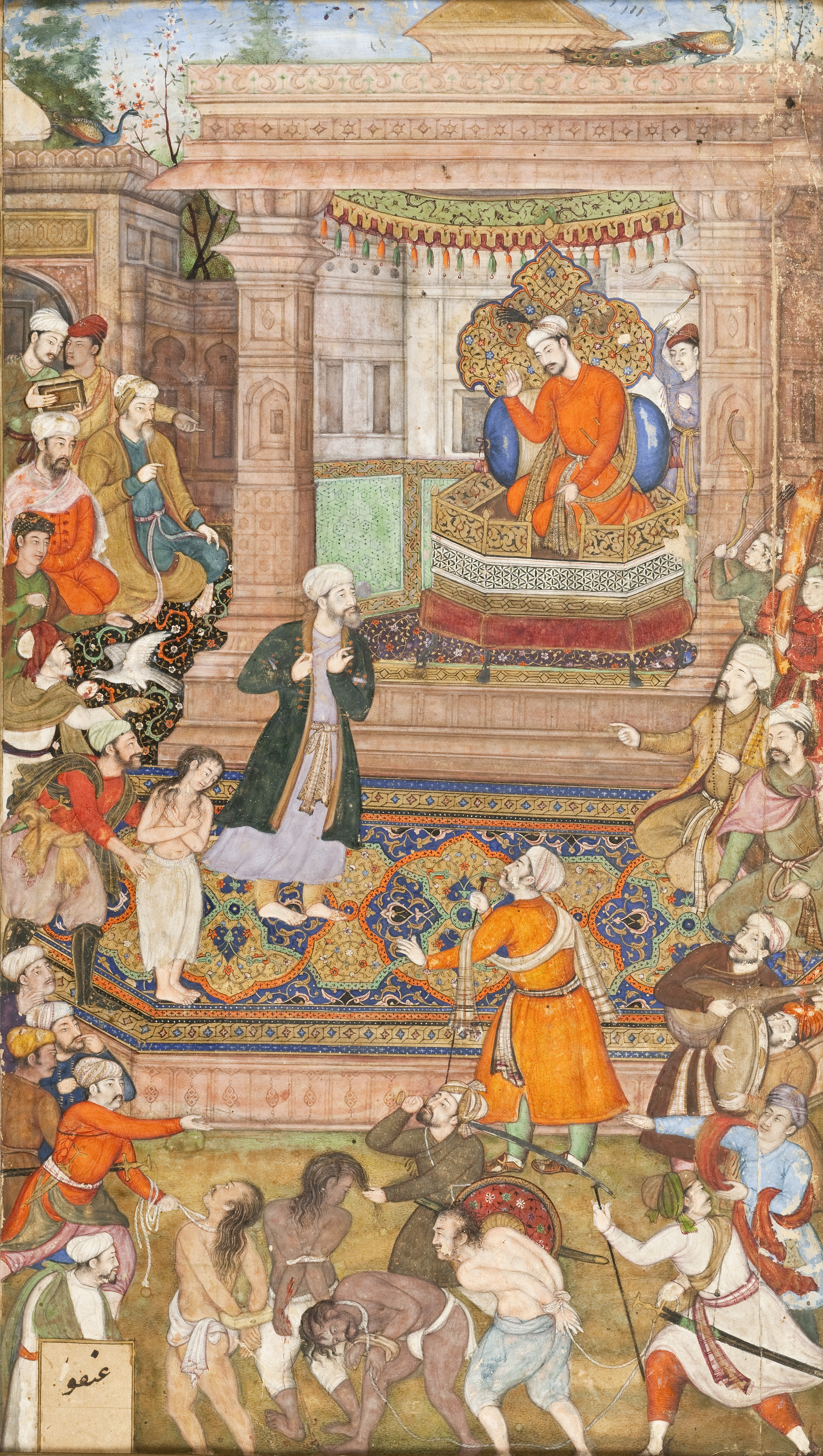 Pakistan, Lahore, Mughal empire, colophon dated 1596 Drawings; watercolors Opaque watercolor, gold, and ink on paper Image: 10 3/8 x 5 3/4 in. (26.35 x 14.61 cm); Sheet: 11 1/4 x 6 1/16 in. (28.58 x 15.4 cm) From the Nasli and Alice Heeramaneck Collection, Museum Associates Purchase (M.79.9.12) South and Southeast Asian Art